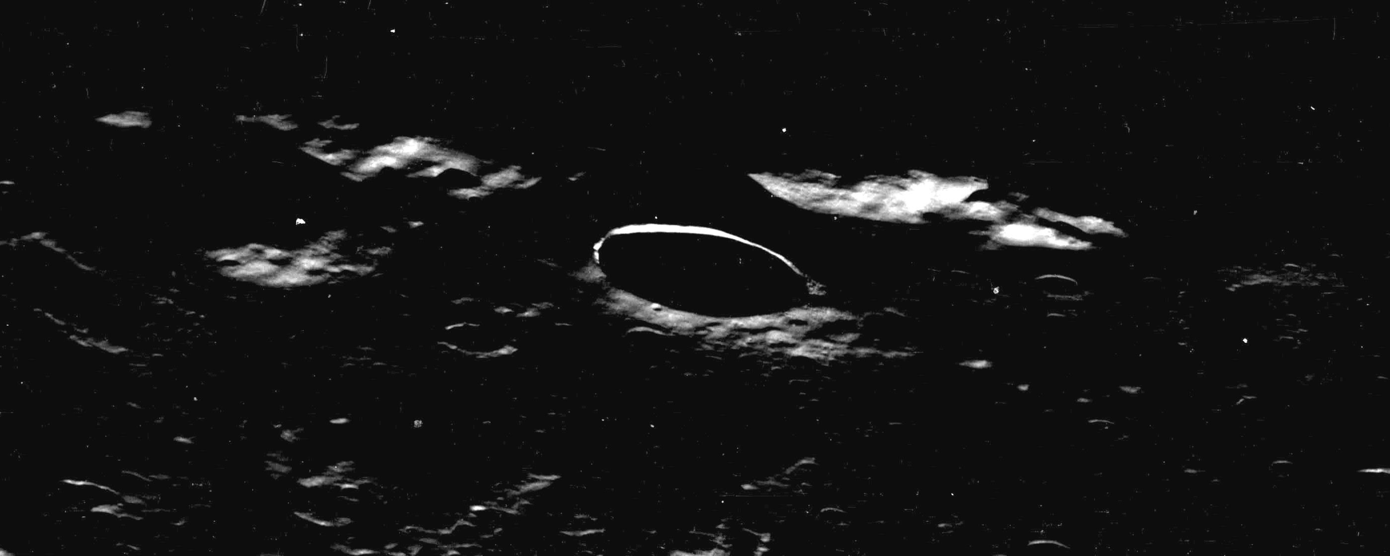 Oblique view of Wallach (center), on the moon. Facing west at low sun angle.